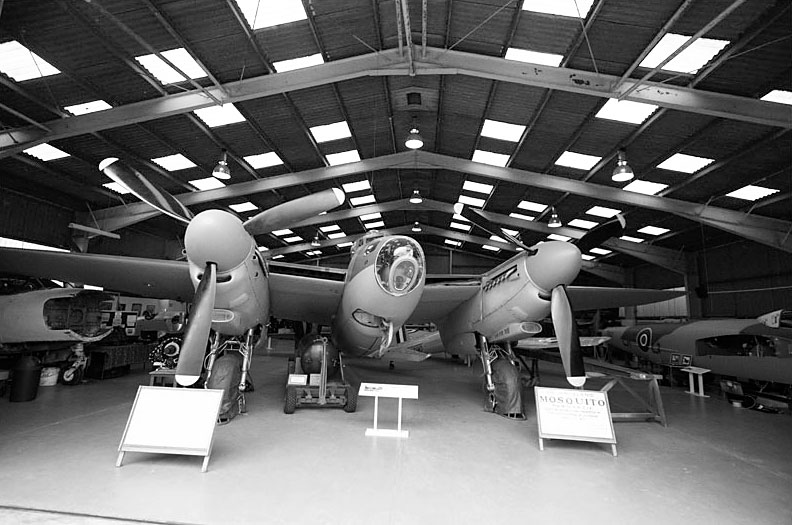 de Havilland Mosquito at de Havilland Aircraft Heritage Centre